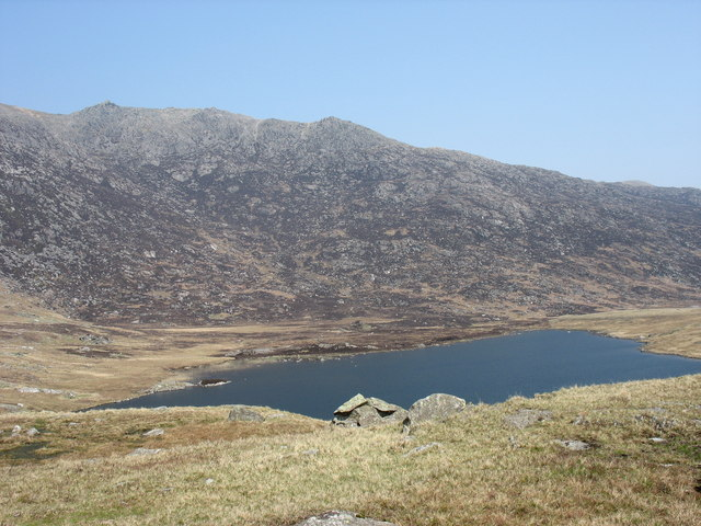 Llyn Cwmffynnon. A shy lake, hidden from the honeypots of Pen-y-Pass and Penygwyryd by Moel Berfedd. The 20 acre lake is an angler's paradise. The craggy face of Glyder Fach forms the background.